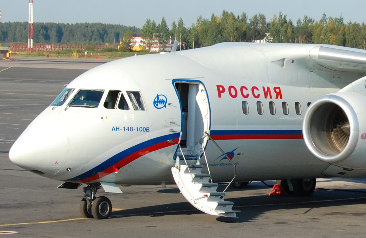 An-148-100B entrance door with stairs.